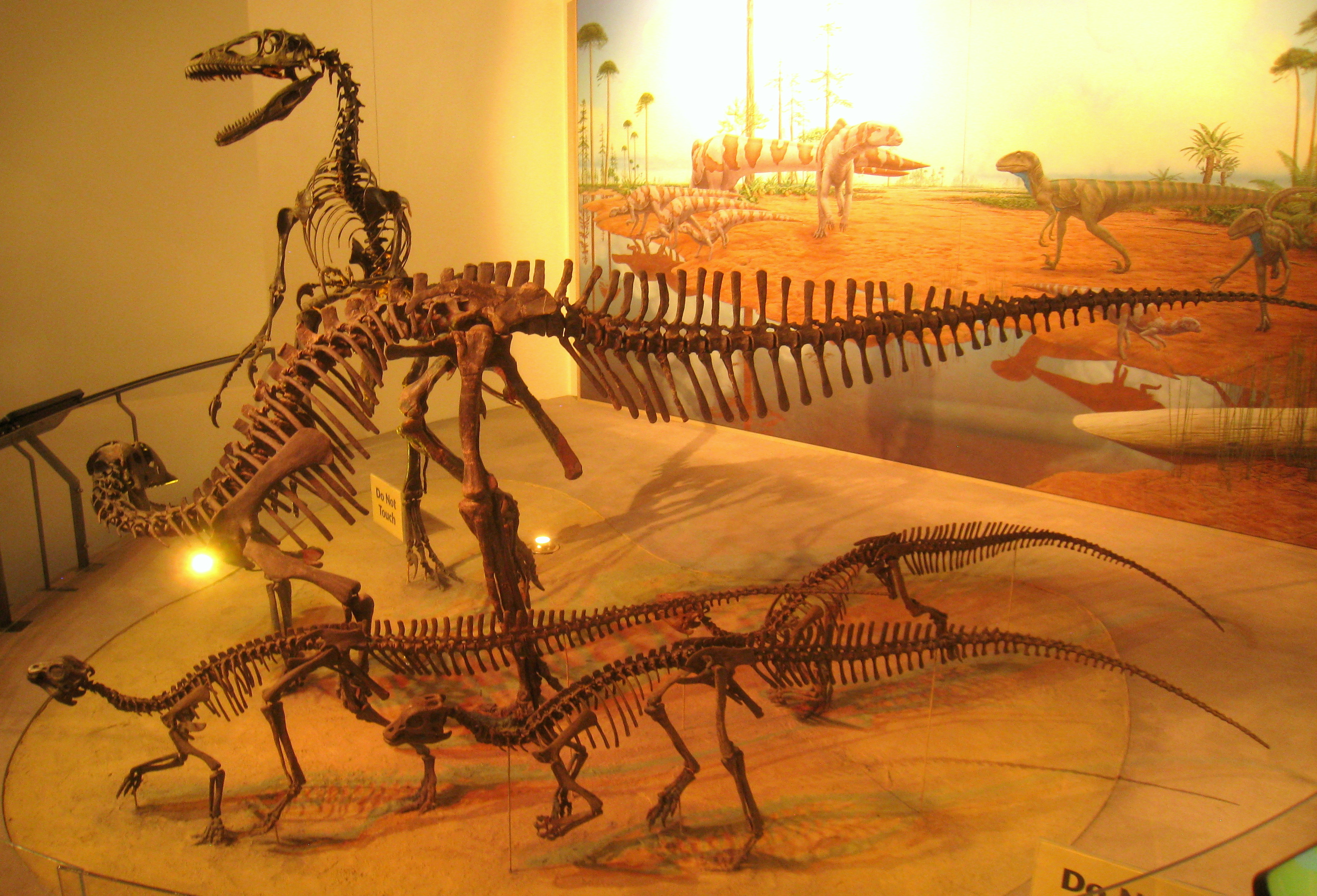 Deinonychus antirrhopus and Tenontosaurus tilletti fossils. Exhibit in the Academy of Natural Sciences, 1900 Benjamin Franklin Parkway, Philadelphia, Pennsylvania, USA. Photography was permitted in this area of the museum without restrictions.